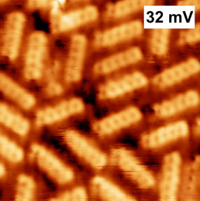 Bias-dependent STM images of pentacene on Ni(111). Image parameters: 5×5 nm, 0.94 nA.